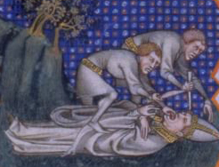 Death of Peire de Castelnou, from a miniature of 14th cent.